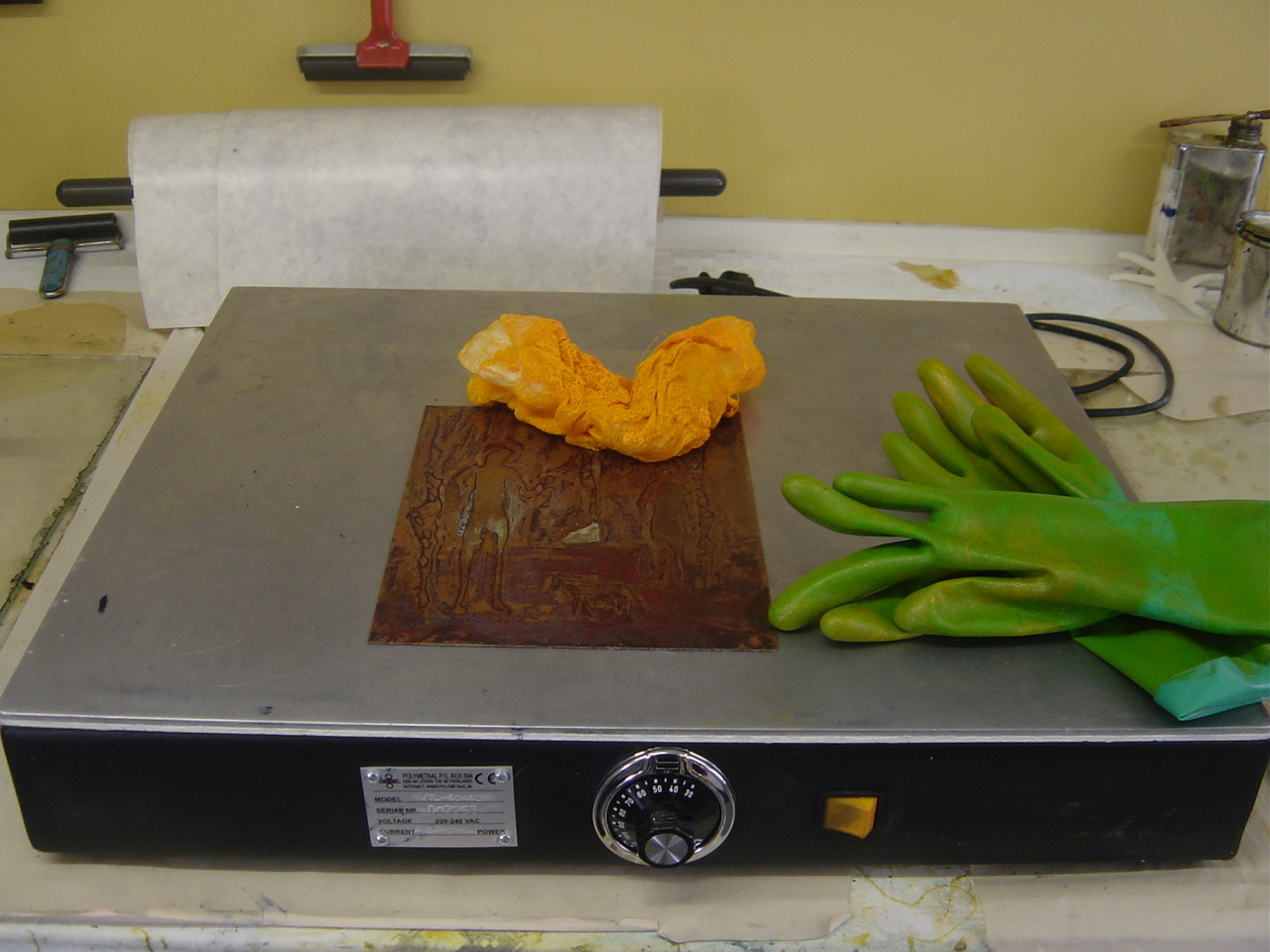 Intaglio printmaking — inking (electric «hotplate»).